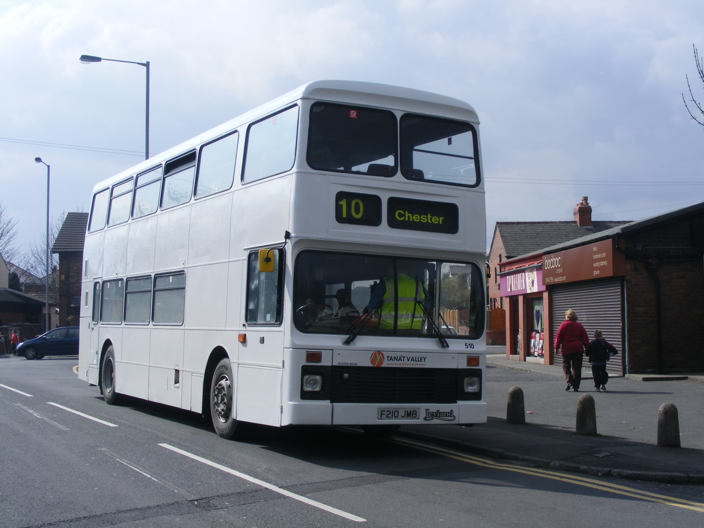 Tanat Valley 510 (F210 JMB), a Leyland Olympian/Northern Counties Palatine. The bus was new to Chester City Transport as their fleet number 10. This was the last new double-decker Chester City Transport bought.